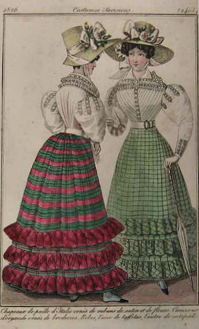 Hand colored engraved fashion plate from Costumes Parisiens, a French fashion magazine, showing tartan or plaid skirts